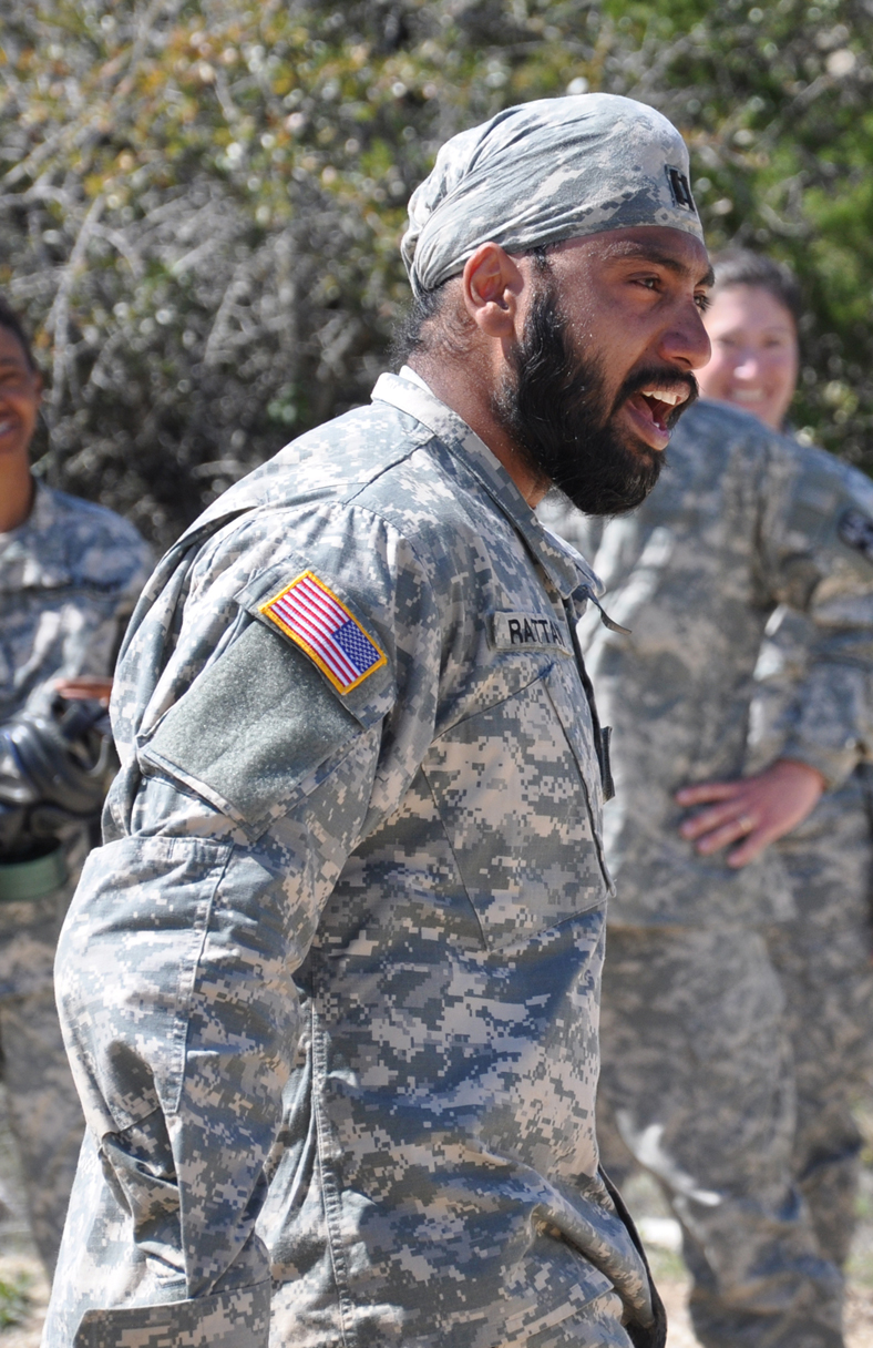 Capt. (Dr.) Tejdeep Singh Rattan proclaims "I am a Sikh warrior" to the delight of his classmates after exiting the gas chamber during nuclear, biological and chemical training at Camp Bullis, Texas, March 17. Photo Credit: Steve Elliott